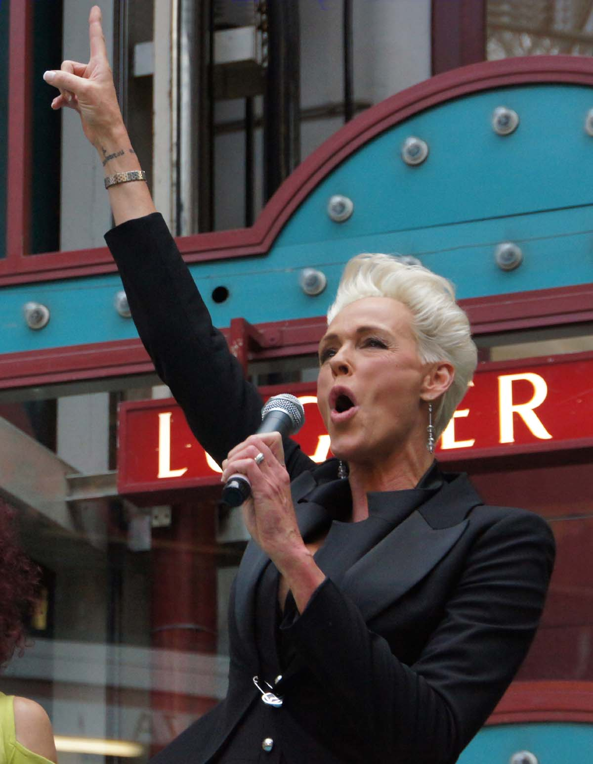 Brigitte Nielsen 'just doing her job'. She showed up as Mr. Lugner's special guest for Vienna's annual 'Opernball' and, on same occasion, presented her biography.